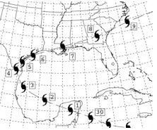 Approximate track of the 1837 Racer's hurricane.